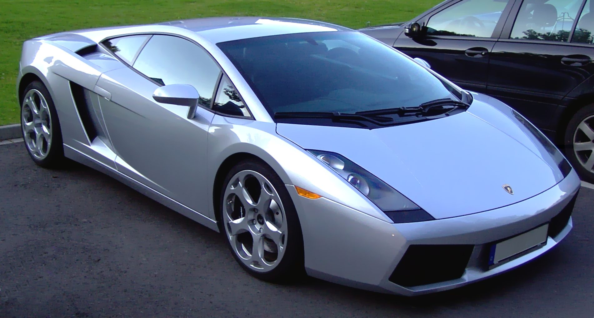 A silver Lamborghini Gallardo